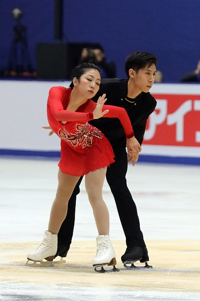 Photos – Cup of China 2017 – Pairs (Wenjing SUI & Cong HAN CHN – Gold Medal)